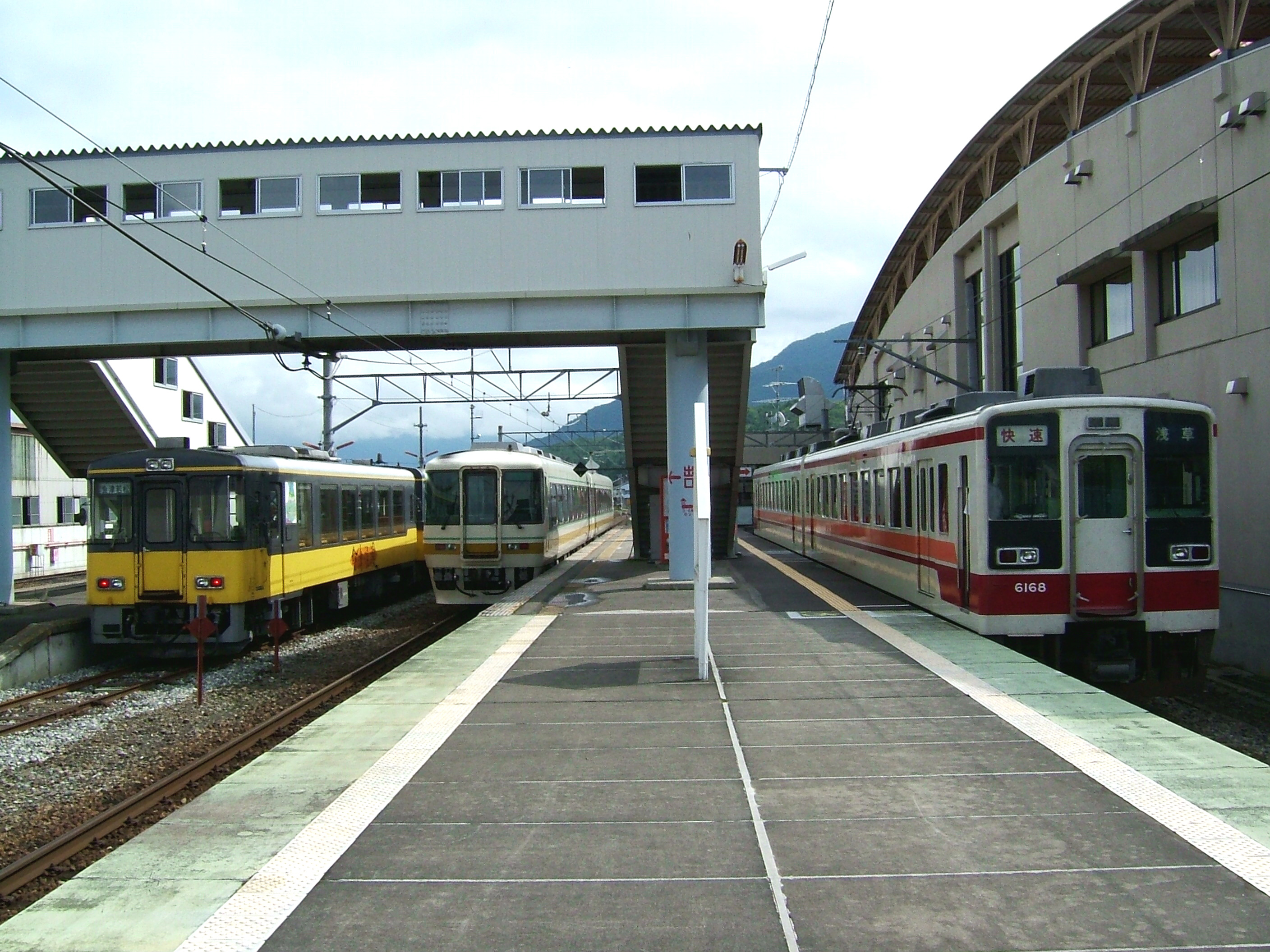 The platforms at Aizu-Tajima Station on the Aizu Railway